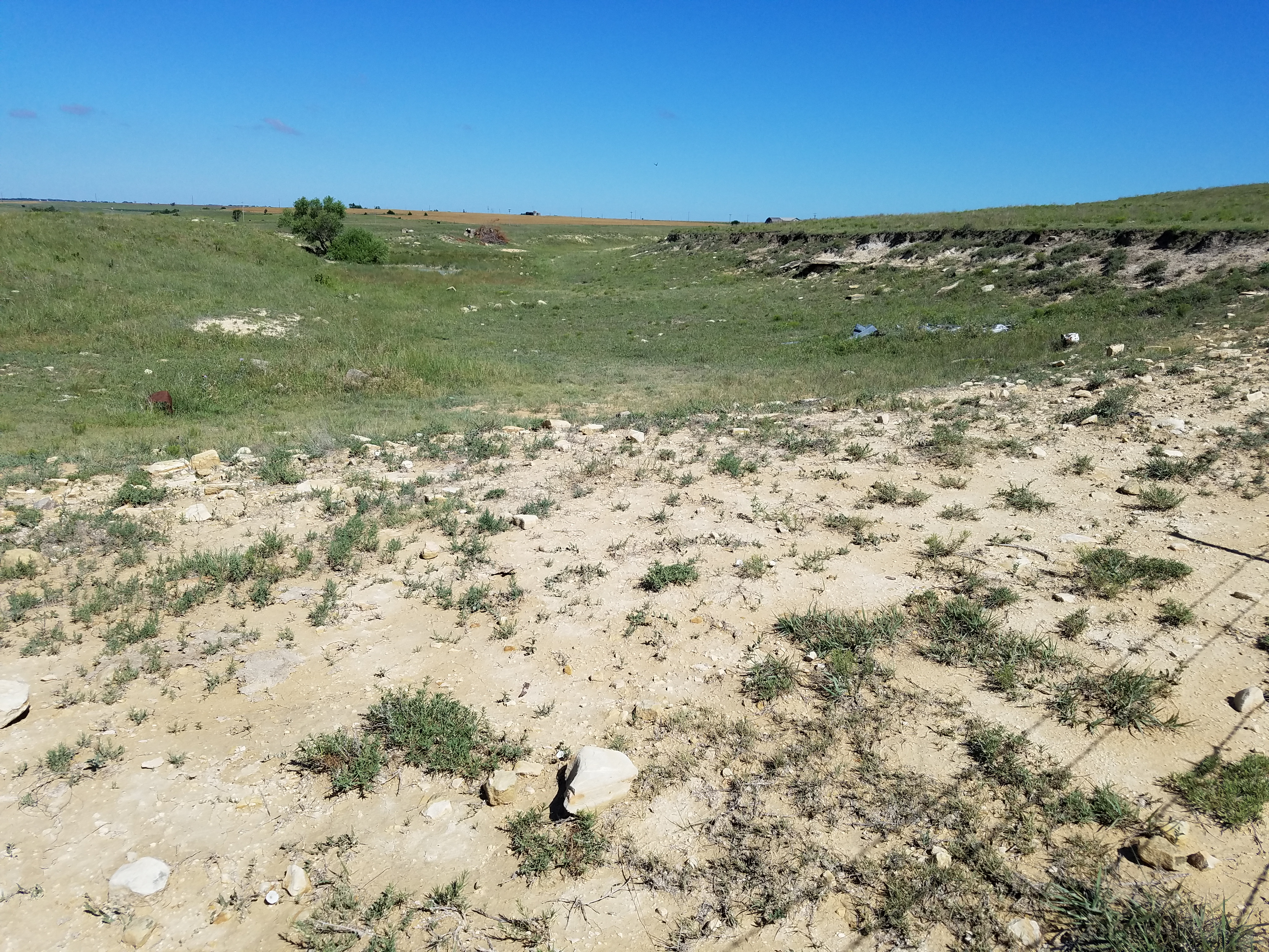 Fencepost limestone quarry.